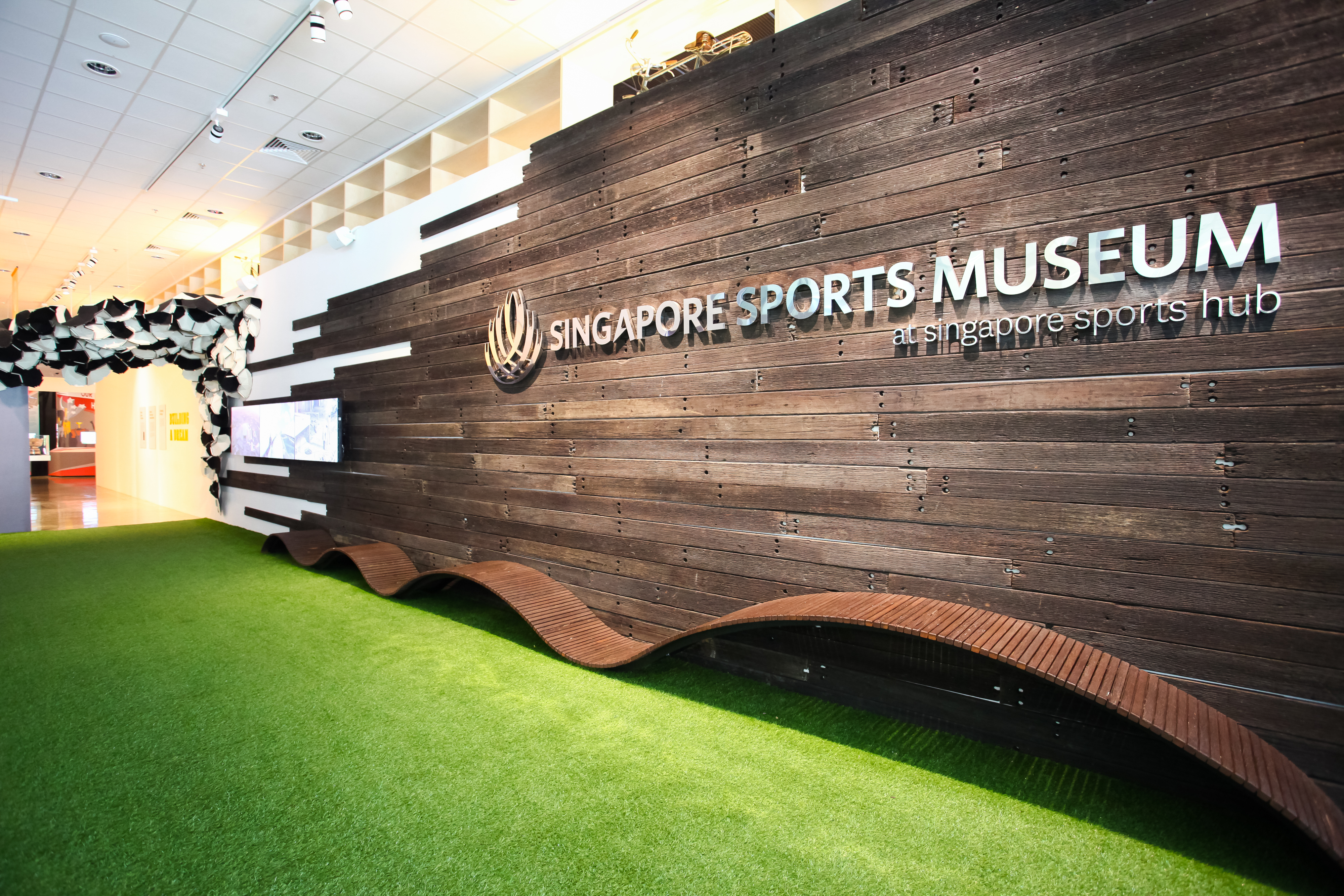 Entrance of Singapore Sports Museum